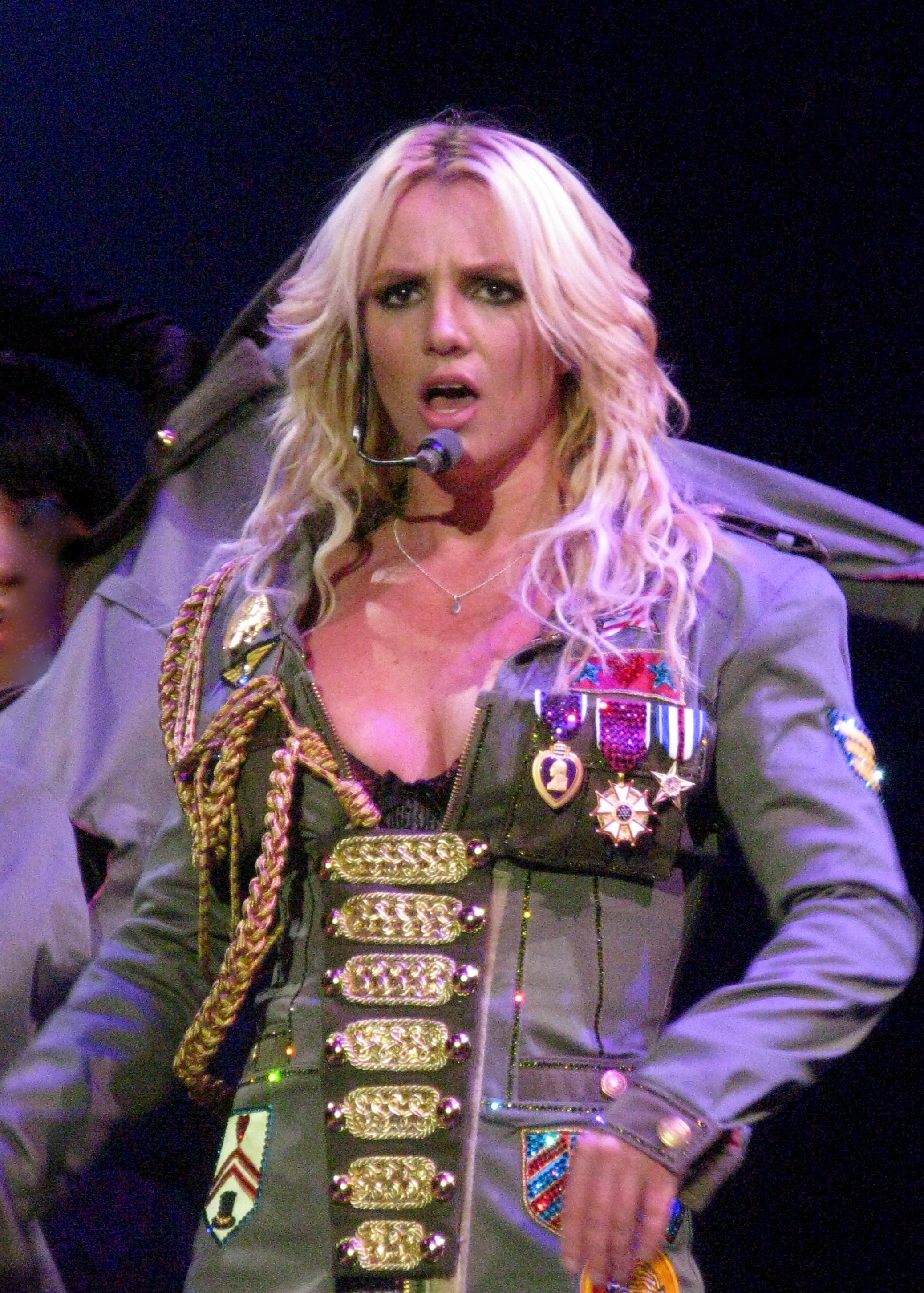 Performing Boys